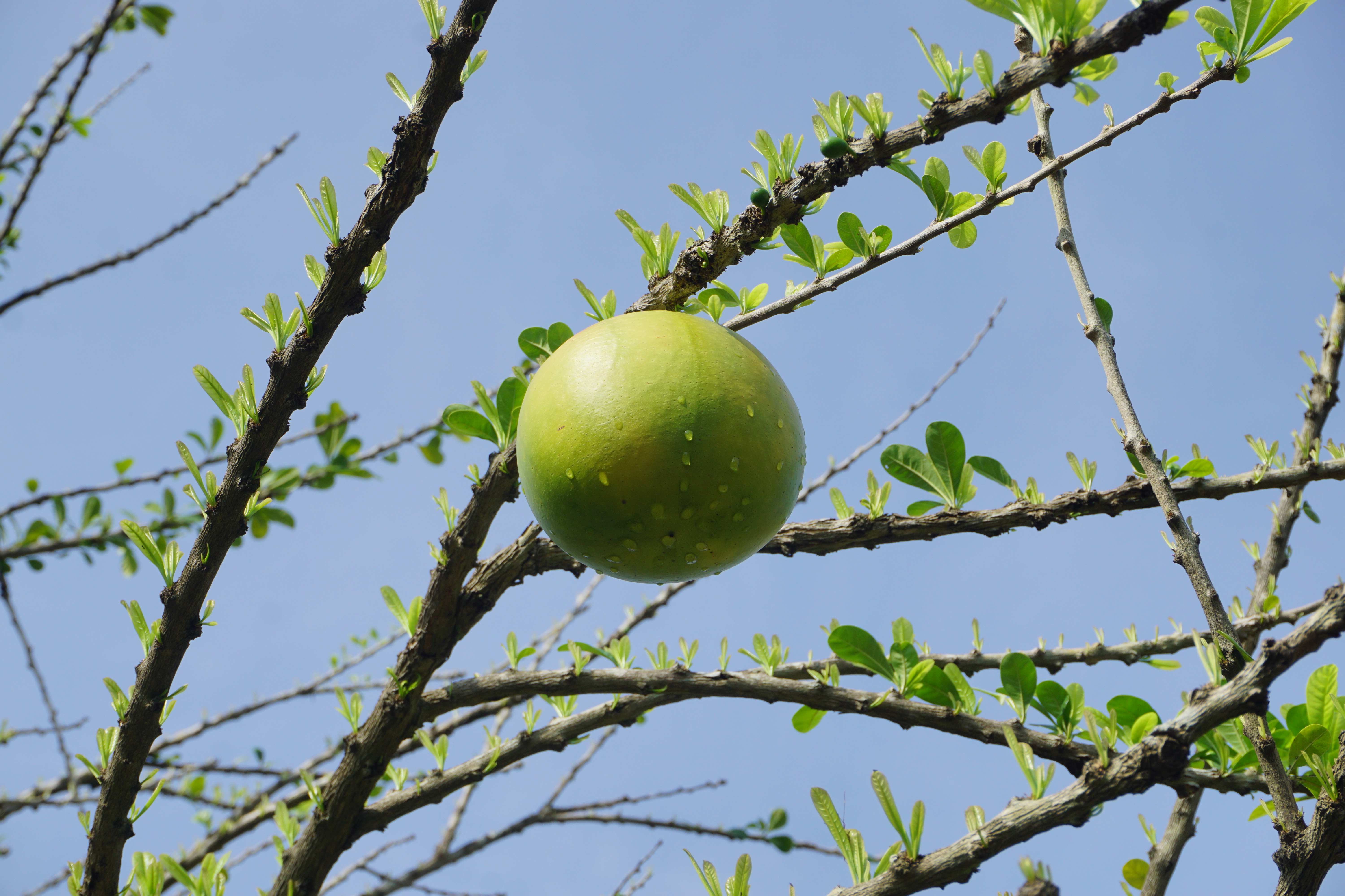 Trowulan, East Java